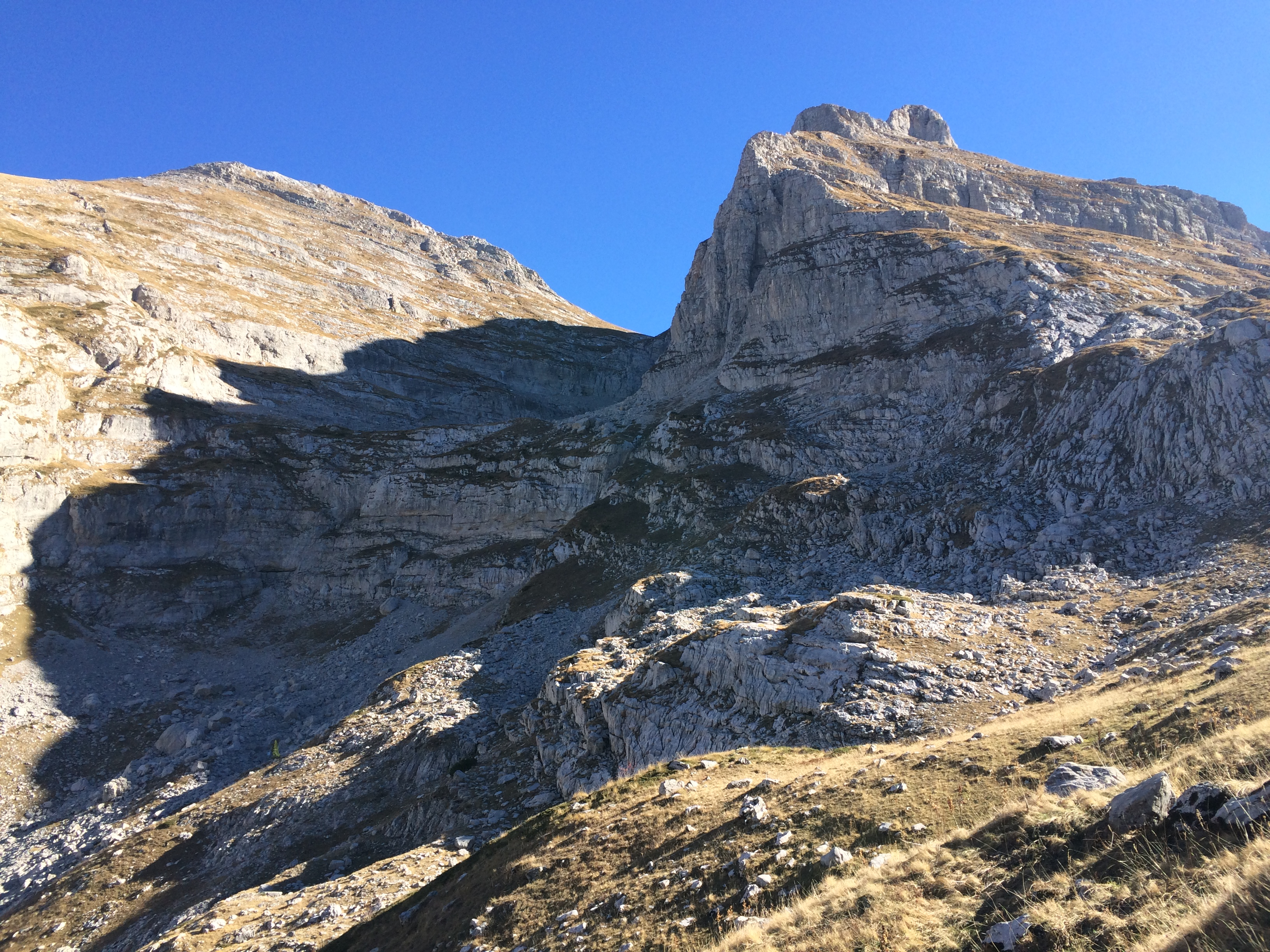 Zla Kolata mountain from the North-West, Montenegro, Prokletije Mountains range, November 2016